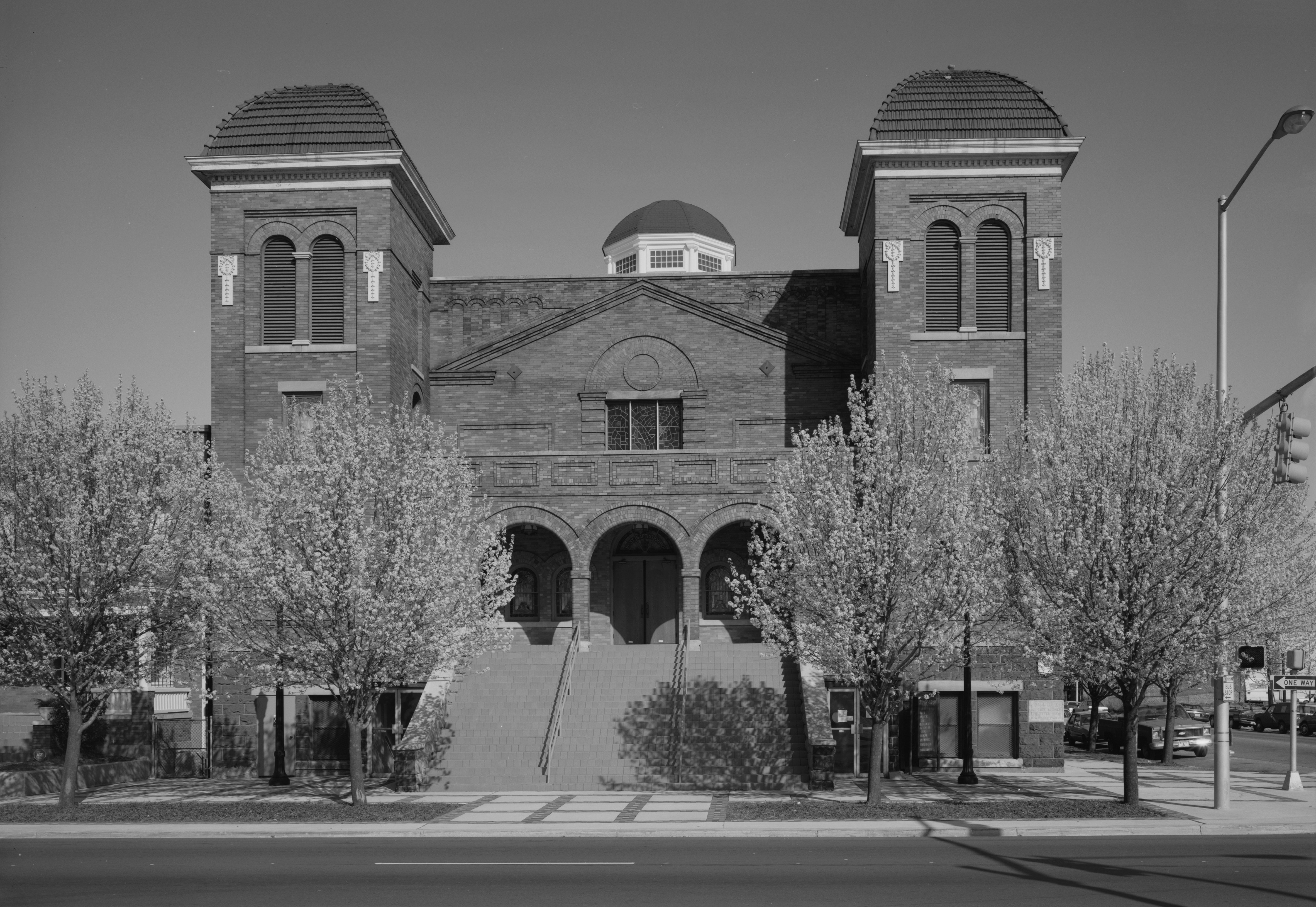 The Sixteenth Street Baptist Church in Birmingham, Alabama, USA